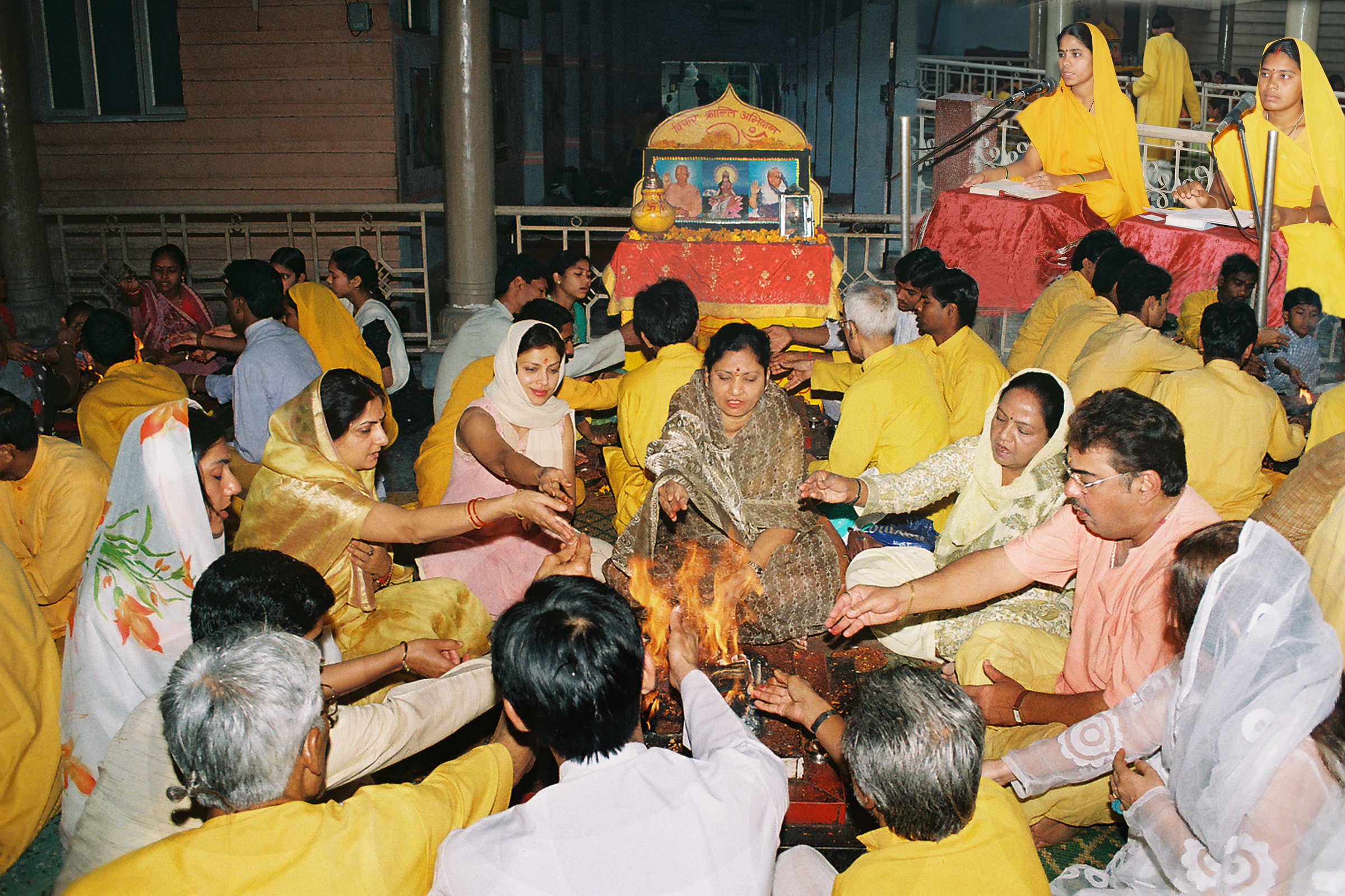 This is the real Yagya, where one and all can particiapte